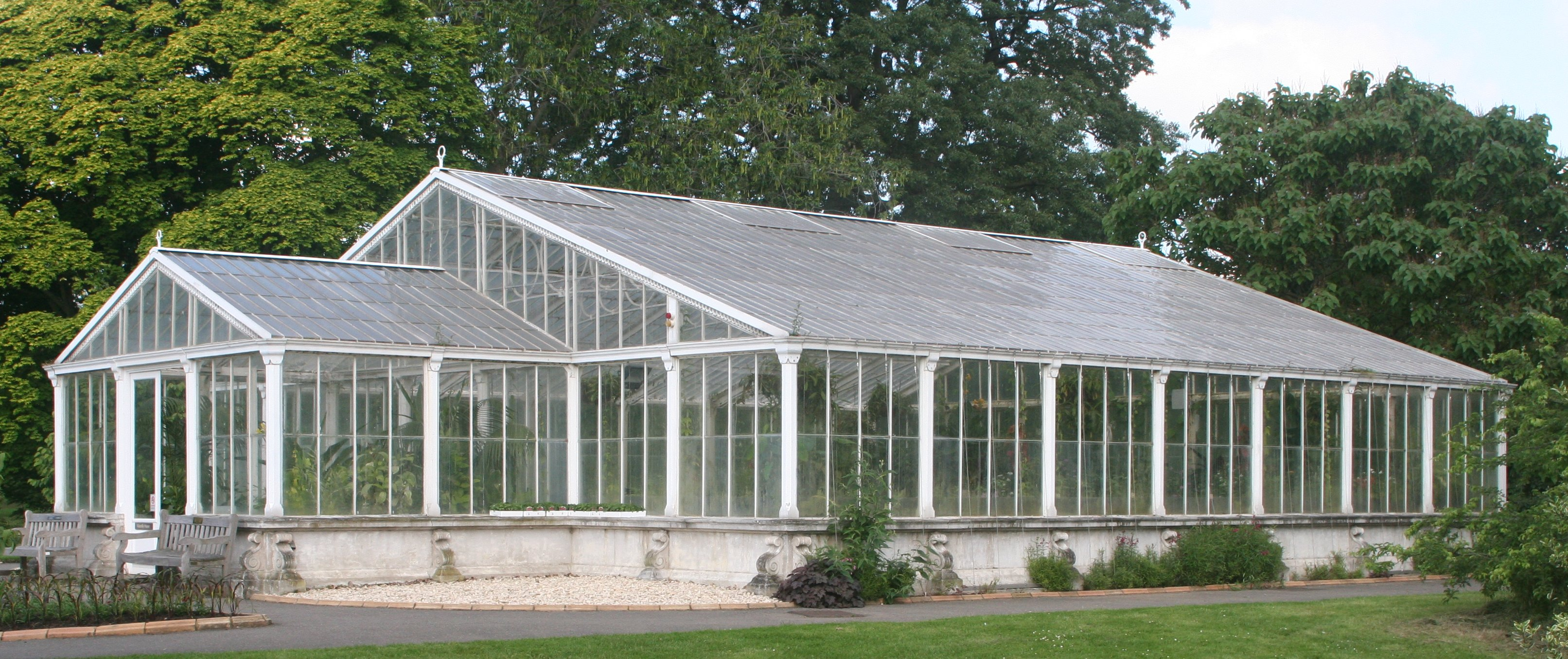 The Water Lily House at Kew Gardens